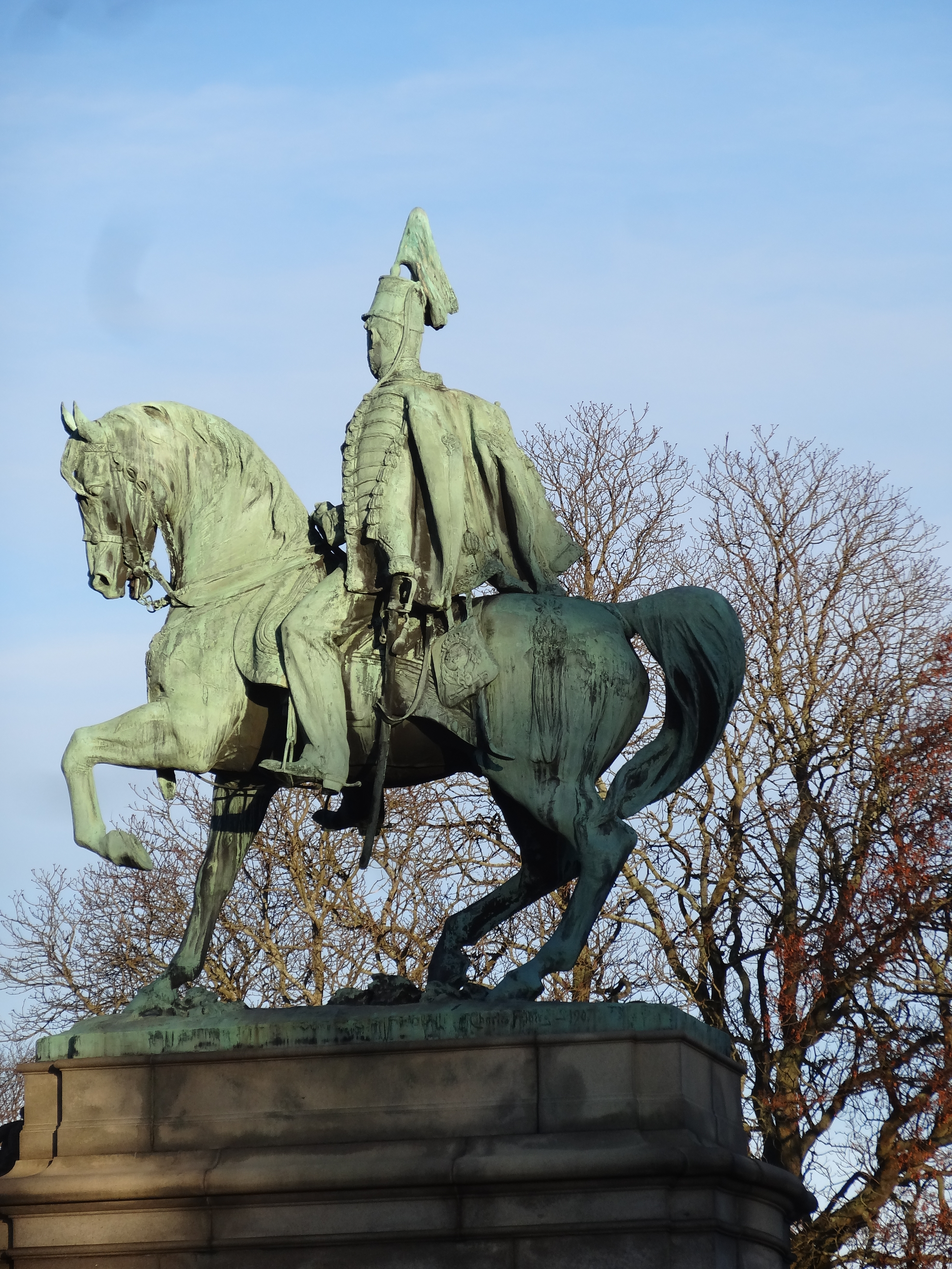 Statue of Charles XV in Stockholm